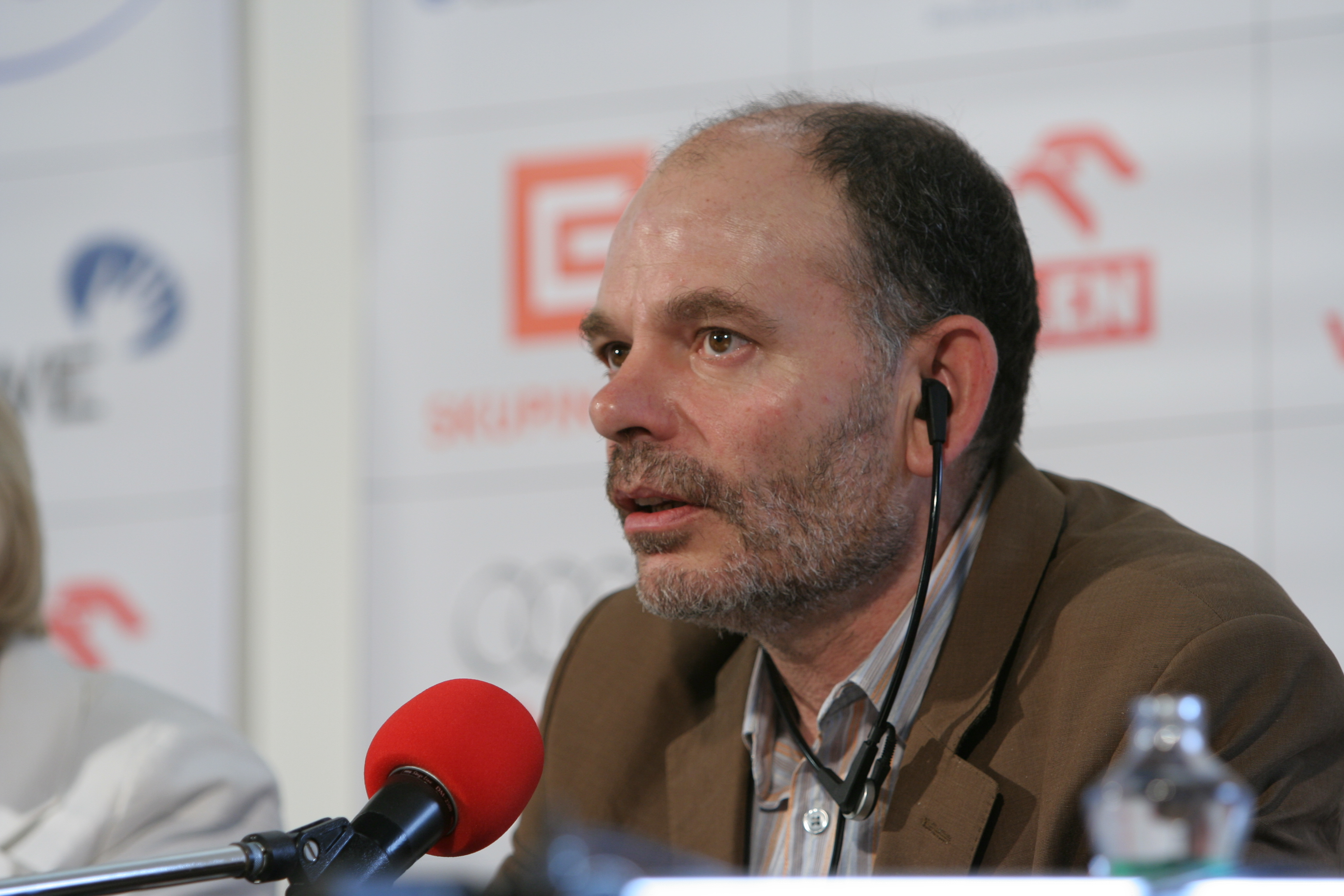 Jean-Pierre Darroussin at 42nd Karlovy Vary International Film Festival.